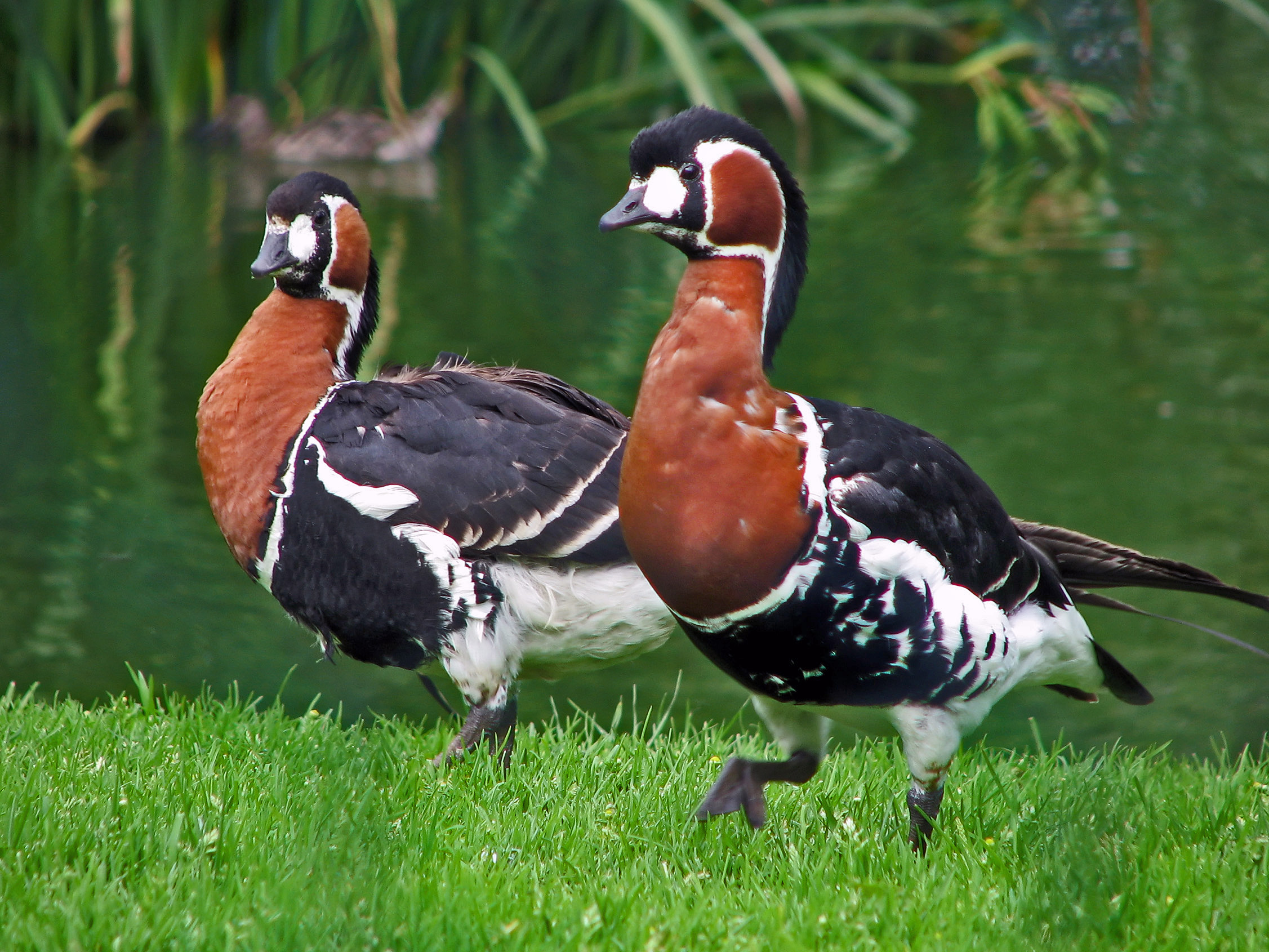 Red breasted geese at the Chester Zoo. The photograph was taken through a fence - the fence is still in the photo but very out of focus. I have reduced the effects of the fence on the picture by adjusting the colours and levels.